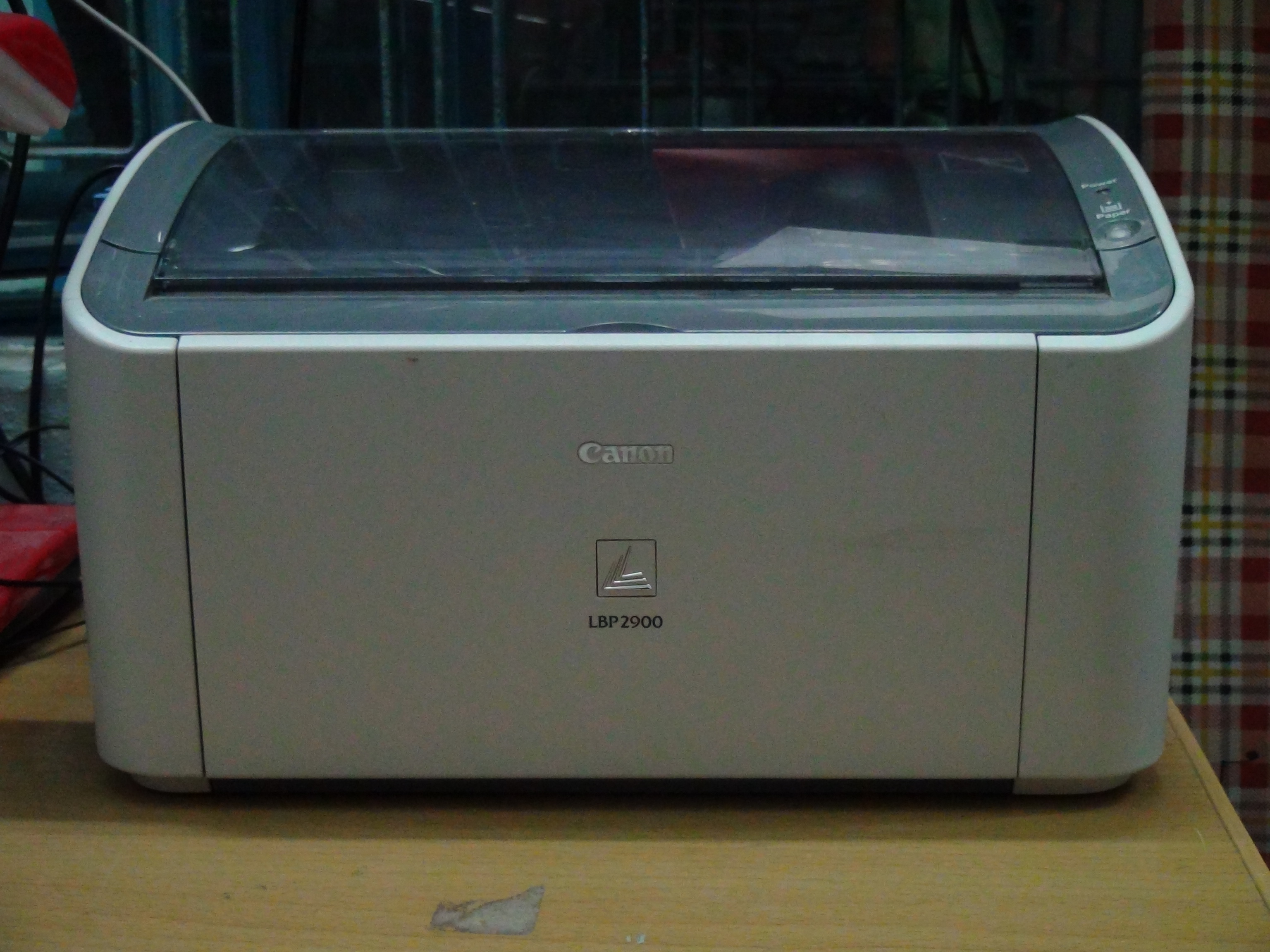 Canon LBP2900